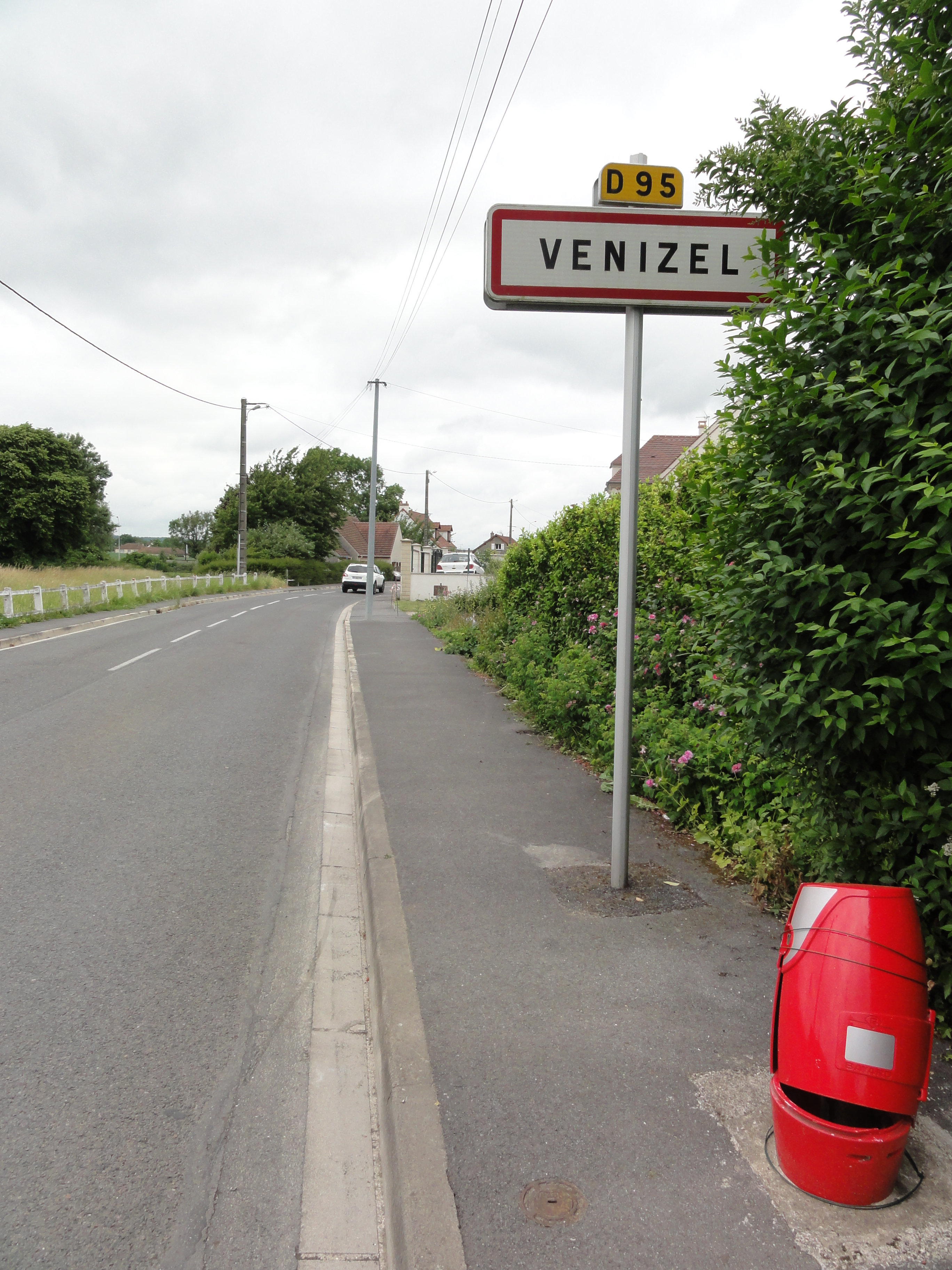 Venizel (Aisne) city limit sign